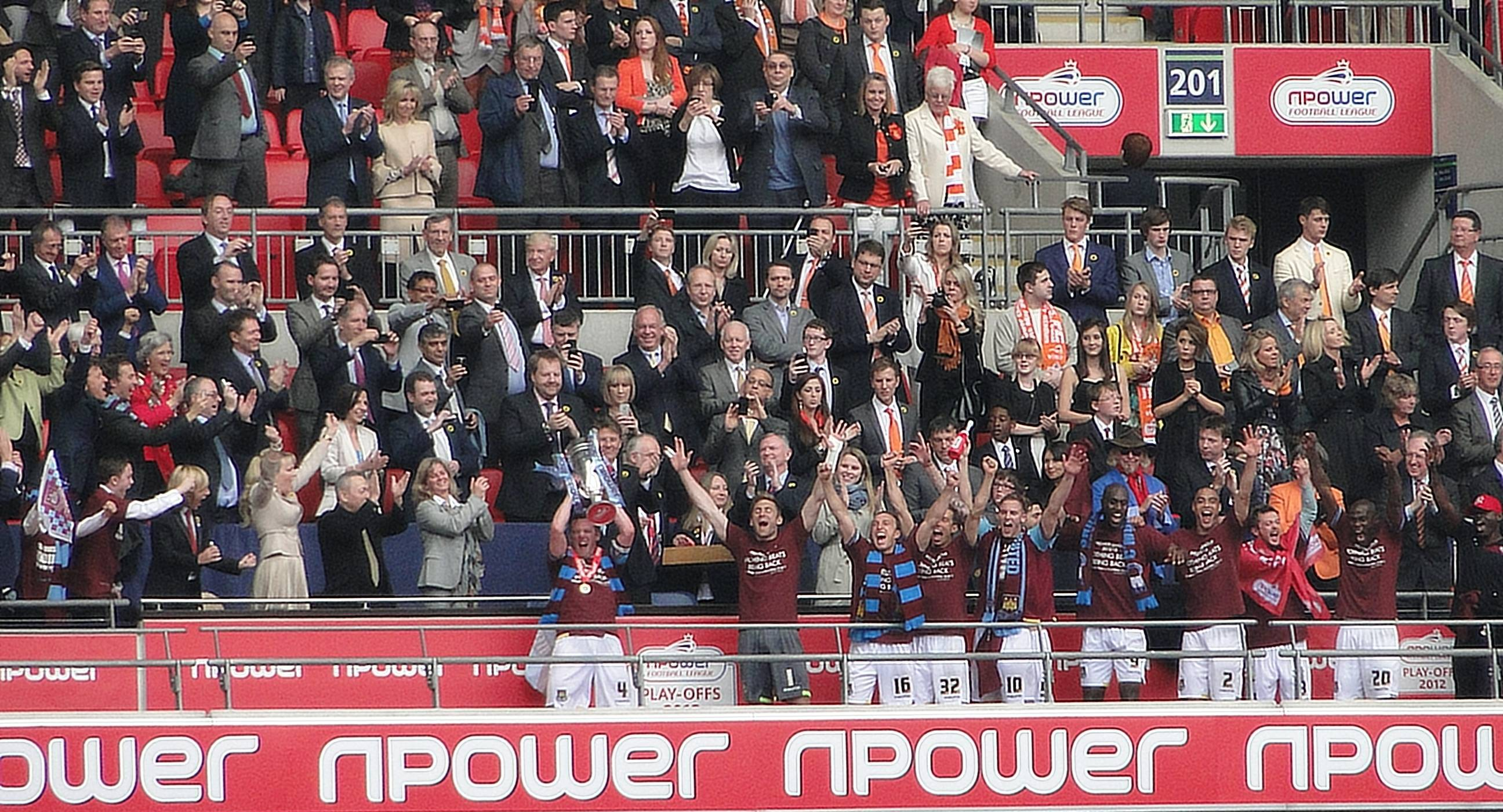 Captain Kevin Nolan lifts the trophy after West Ham win the 2012 Football League Championship play-off Final at Wembley.